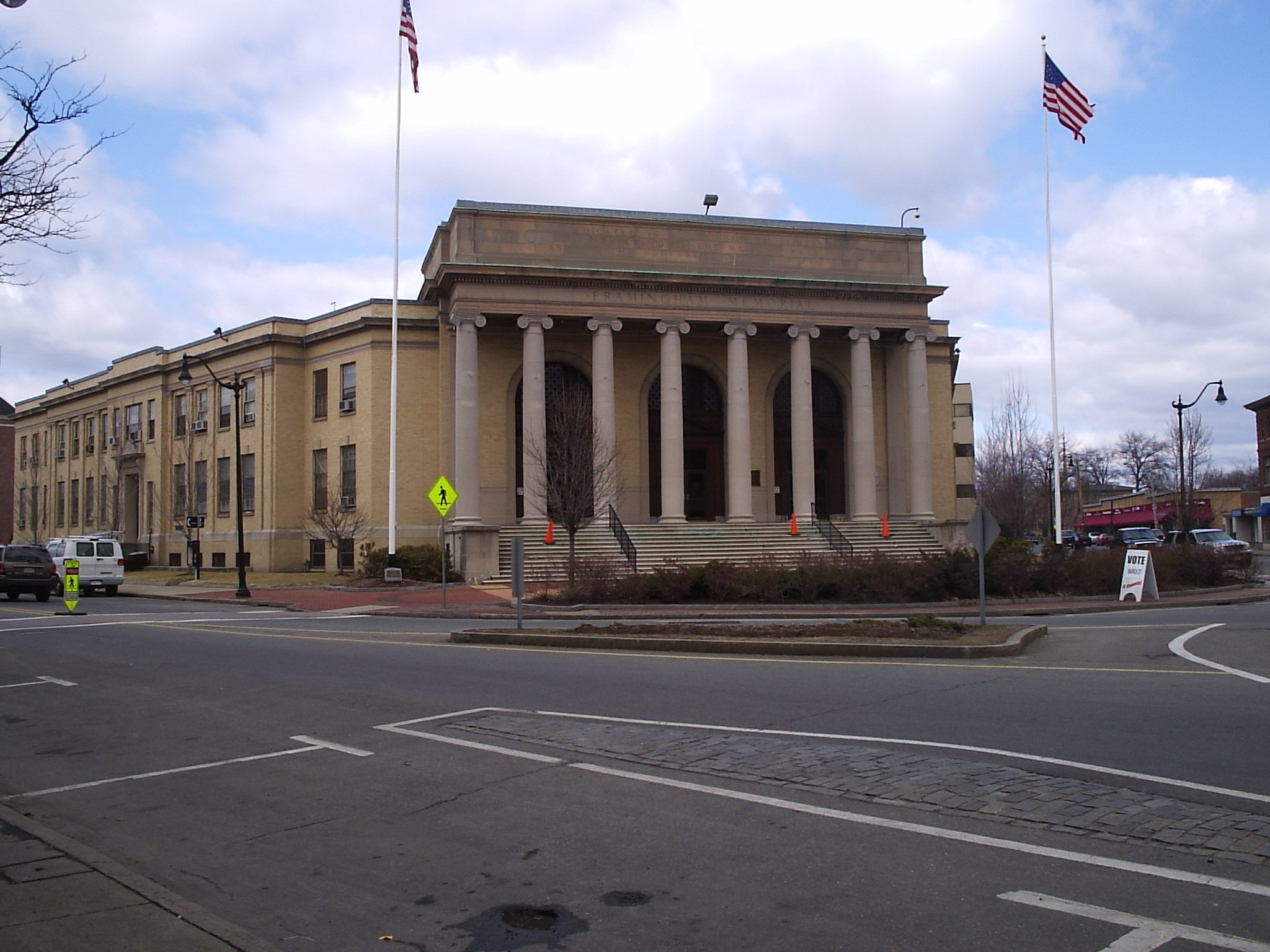 Looking north towards Framingham, MA Town Hall. To the right of the building is Concord St./MA Highway 126; to the left is Union Ave.